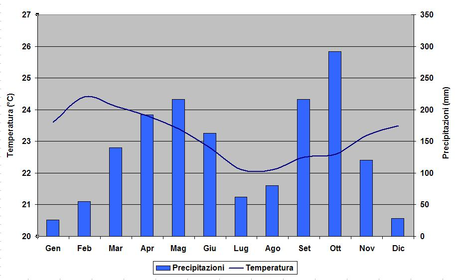 Climate diagram of Yaoundé, Cameroon